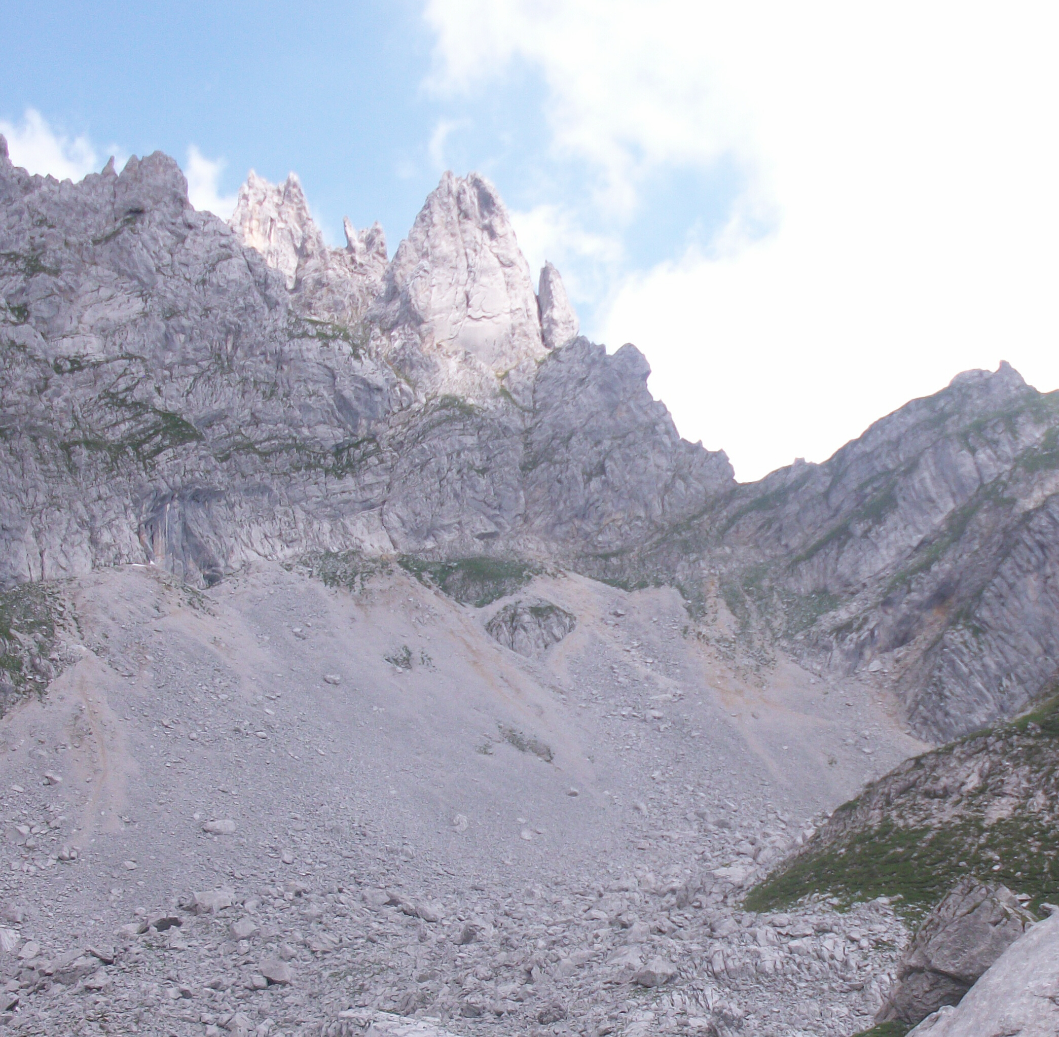 Kopftörl from southwest